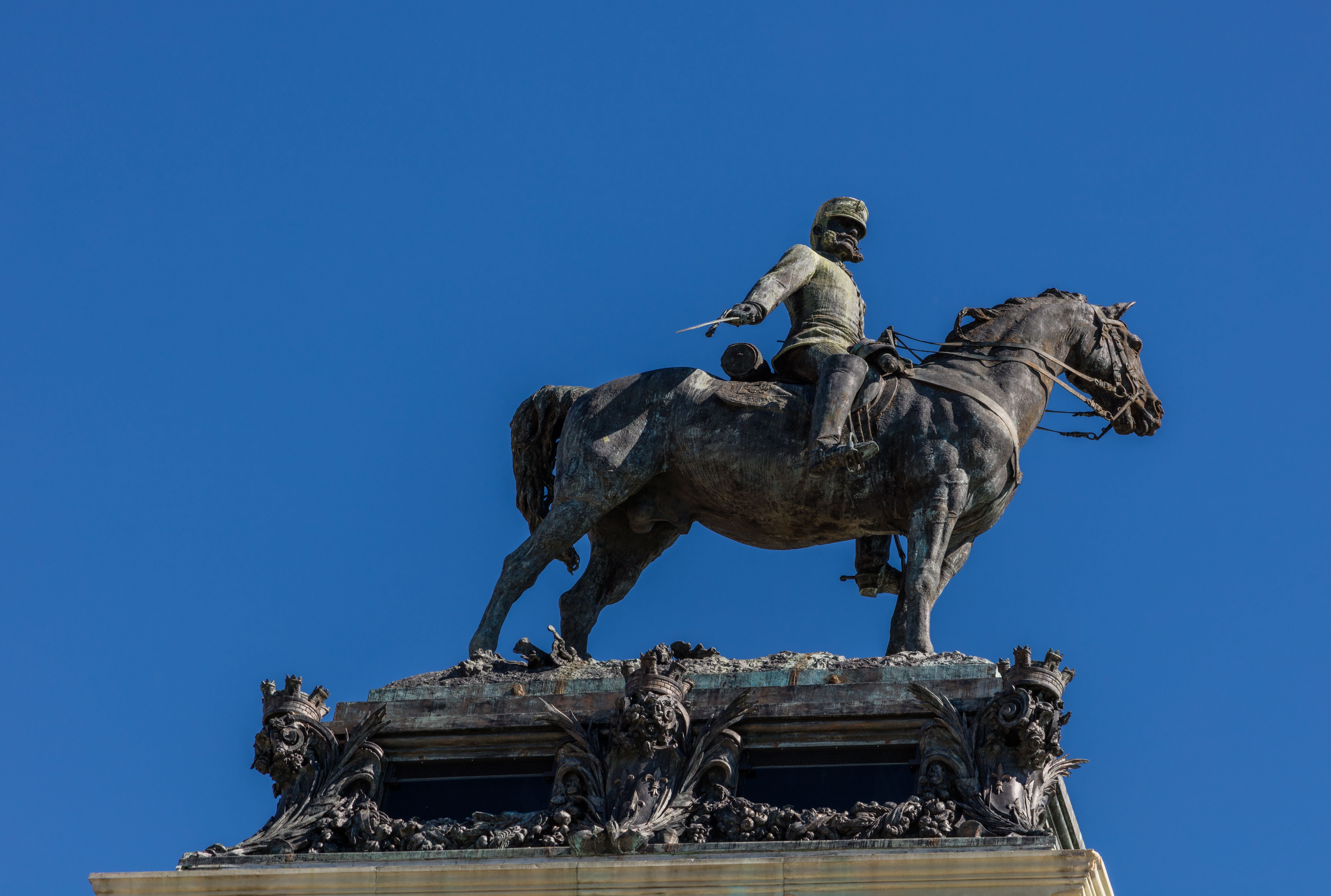 Monument to Alfonso XII, Retiro Park, Madrid, Spain